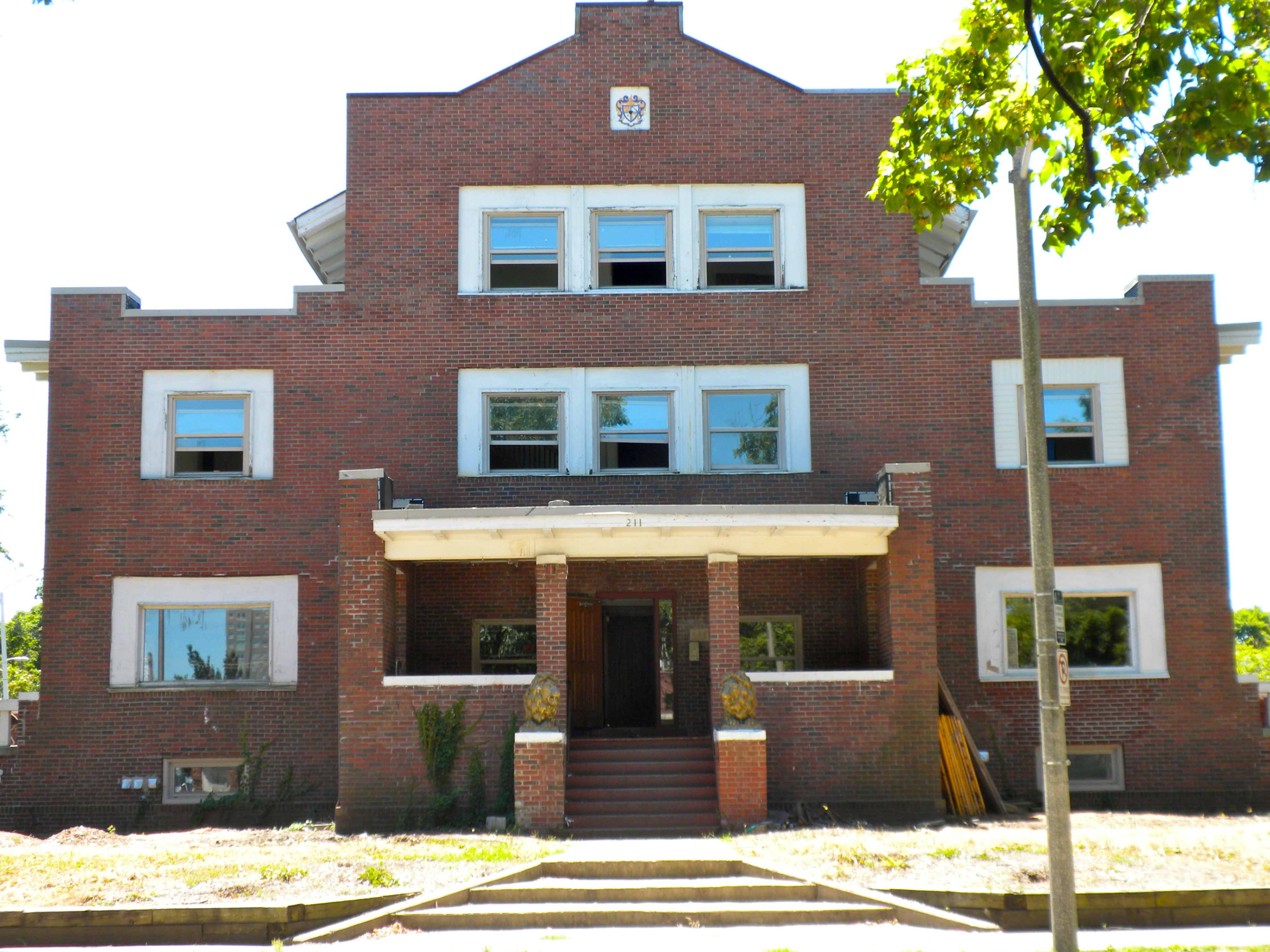 Sigma Alpha Epsilon Fraternity House at the University of Illinois on the NRHP since February 22, 1990. At 211 E. Daniel St., Champaign, Illinois